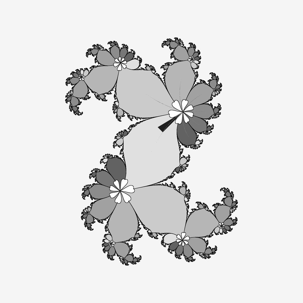 Numerical approximation of parabolic Julia set for : fc(z)= z^2 + c c = 0.367375134418445 +0.147183763188559i is a root point of the end of internal ray for internal angle 1 over 7 with flower, trap and critical orbit.